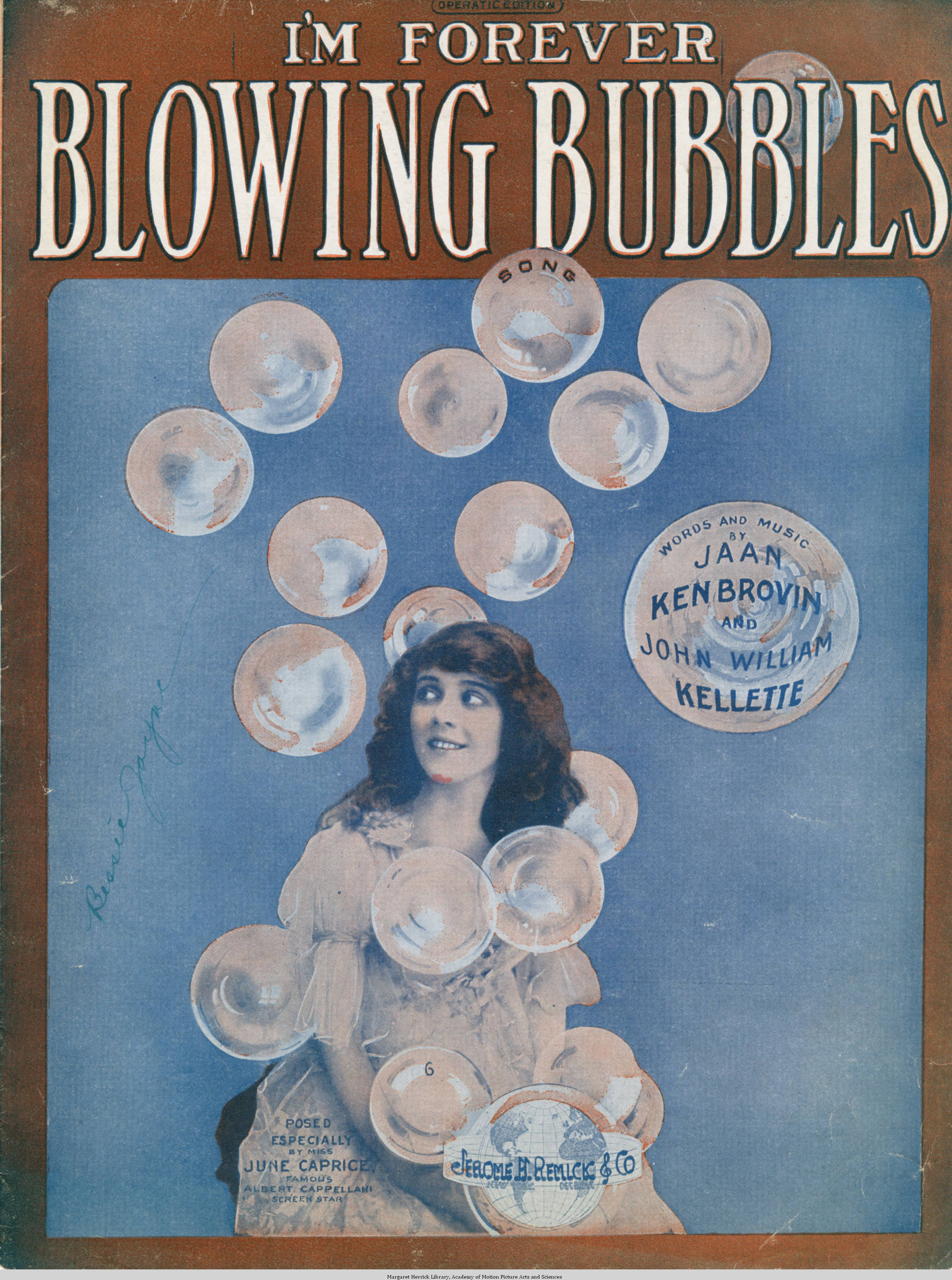 Sheet music cover: "I'M Forever Blowing Bubbles : Song" 1 vocal score (5 p.) ; 31 cm. Illustrated cover with image of June Caprice.